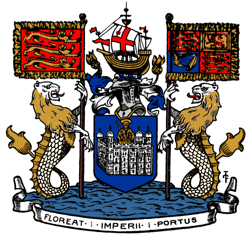 Coat of arms of the Port of London Authority. Source: A.C. (Arthur Charles Fox-Davies).The Book of Public Arms, 2nd edition, 1915 (London, T C & E C Jack)